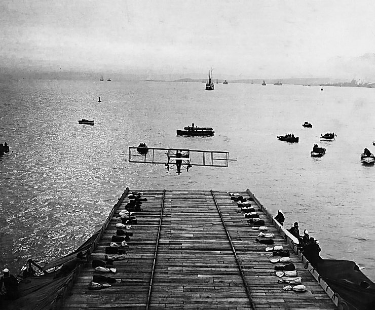 First airplane landing on a warship The Curtis pusher biplane of Eugene B. Ely nears the landing platform on USS Pennsylvania (Armored Cruiser No. 4), during the morning of 18 January 1911. The ship was then anchored in San Francisco Bay, California.